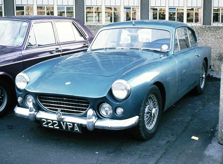 AC Greyhouond parked behind earls Court Exhibition centre in London during the October London Motor Show(DVLA 2014) first registered 3 July 1961, 2555cc